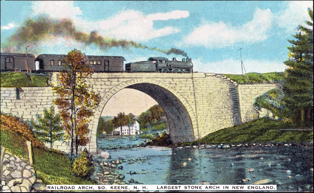 TITLE Cheshire Railroad Bridge, Keene NH CREATOR SUBJECT Bridges - NH - Keene Rivers - NH - Keene Stone bridges - NH - Keene DESCRIPTION Postcard of the Cheshire Railroad Bridge (Stone Arch Bridge) in Keene New Hampshire, also called the Keystone Arch Bridge. The bridge had a 90 foot span and was 60 feet high at the center of the arch. "An enduring example of the excellence which characterized the construction of the Cheshire Railroad. It was designed by Lucian Tilton. The stone came from a quarry on the Thompson farm, within a half-mile of the bridge. The keystone was set Dec.9, 1846. The removal of the original parapet and the substitution of an iron railing has detracted somewhat from its beauty." This postcard says "Largest Stone Arch in New England." PUBLISHER Keene Public Library DATE DIGITAL 20071126 DATE ORIGINAL RESOURCE TYPE photographic postcards FORMAT image/jpg RESOURCE IDENTIFIER hsykbrg025 RIGHTS MANAGMENT No known restriction on publication.